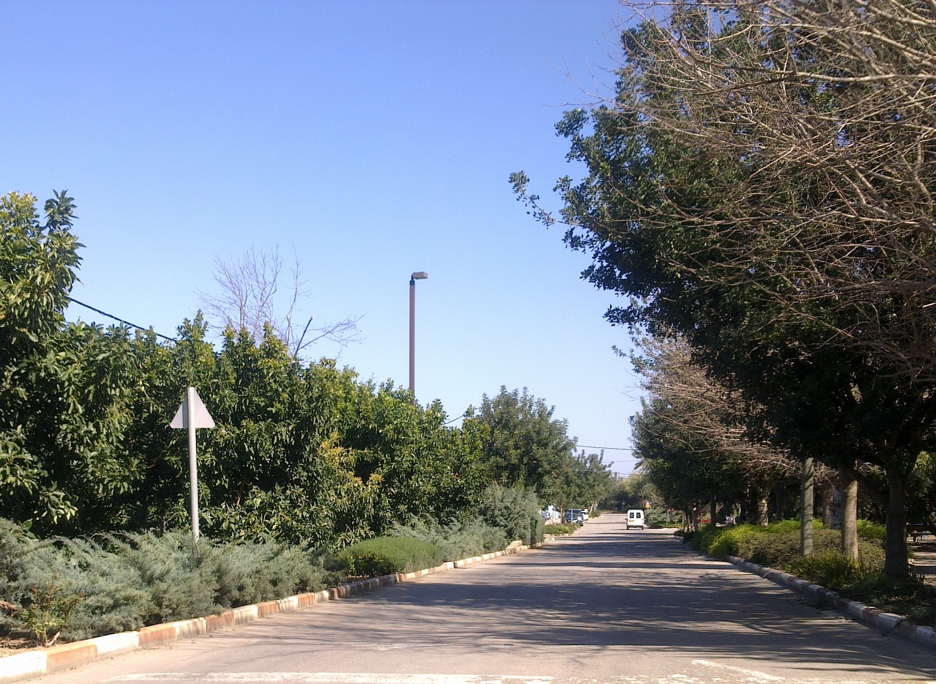 a street in Moshav Ben Ami רחוב במושב בן עמי